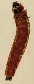 Stainton’s Natural History of the Tineina (1855–1873): Coleophora cracella larva